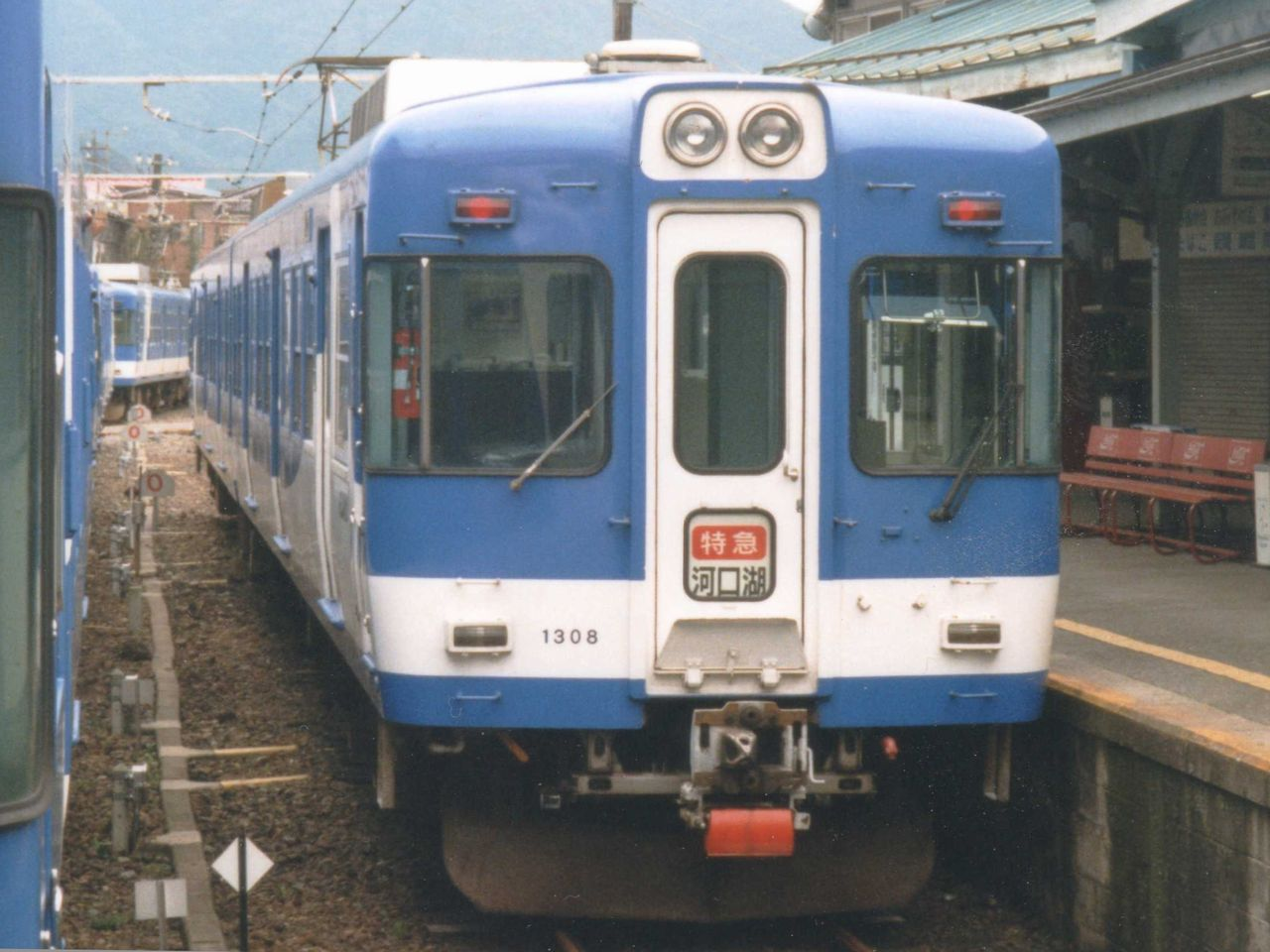 EMU of Fujikyu,Type 1000. Limited Express "Fujiyama".